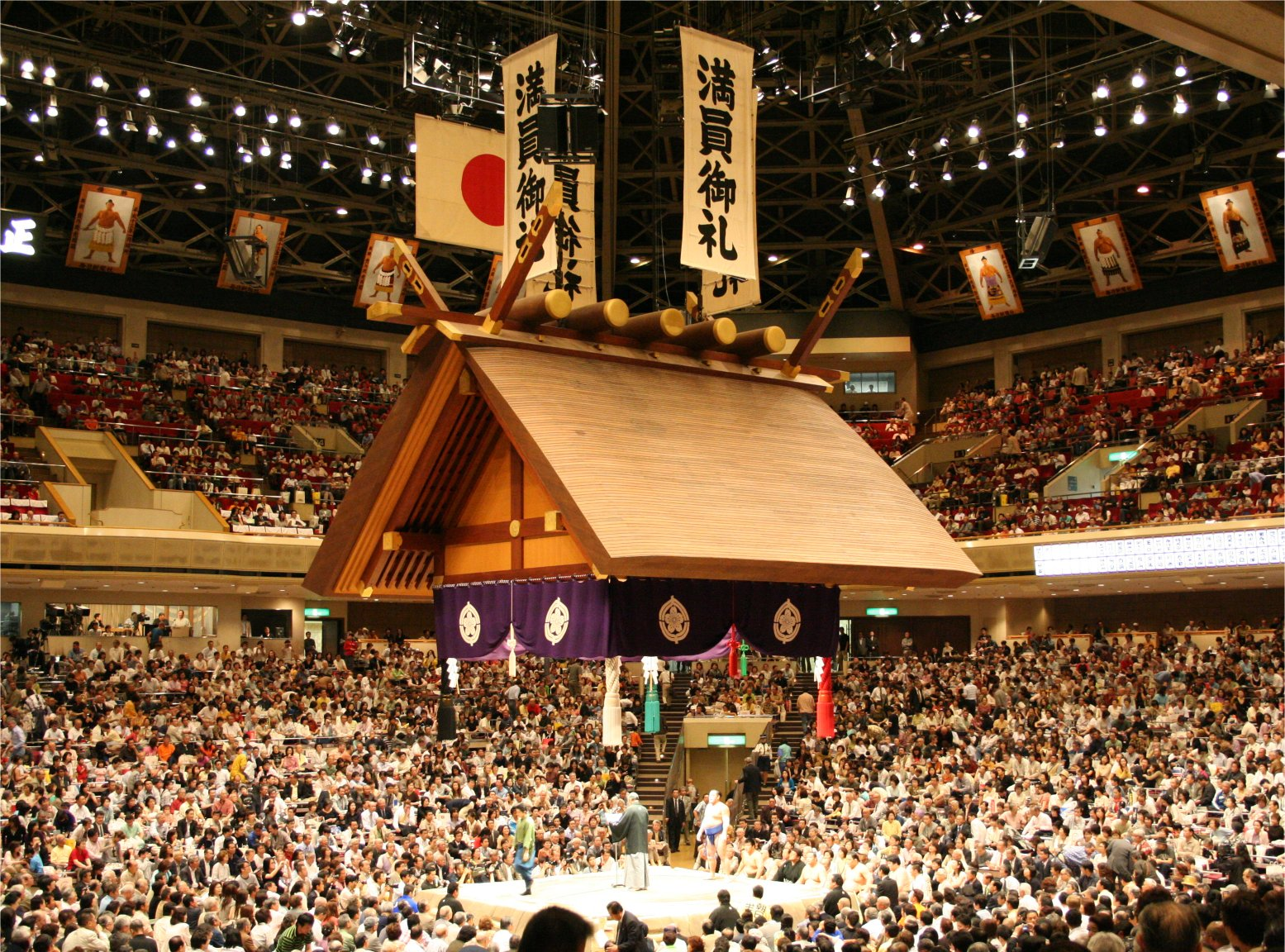 Hanging roof Ryogoku Kokugikan (Ryogoku Sumo Hall, Tokyo)